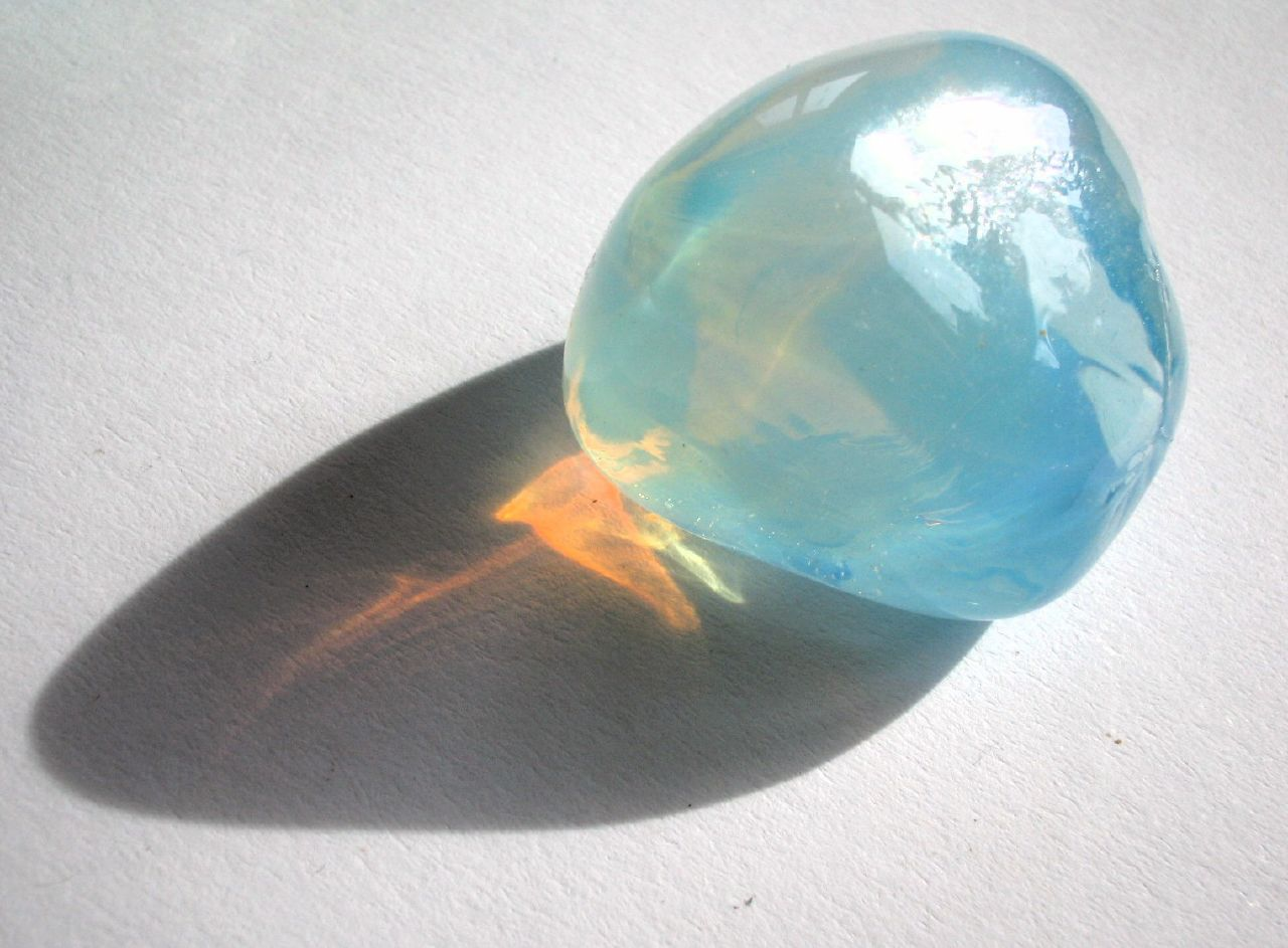 a piece of blue glass, through which the light shines orange, seeming to behave like the sky at sunset. There is a long commentary on why the sky is blue.